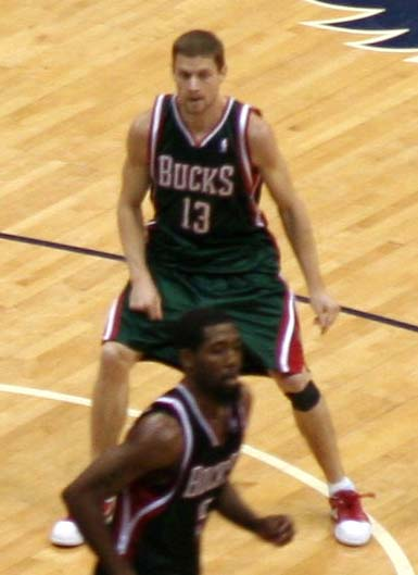 Luke Ridnour of the Milwaukee Bucks This file has been extracted from another file: Atlanta Hawks v Milwaukee Bucks 03 2010.jpg